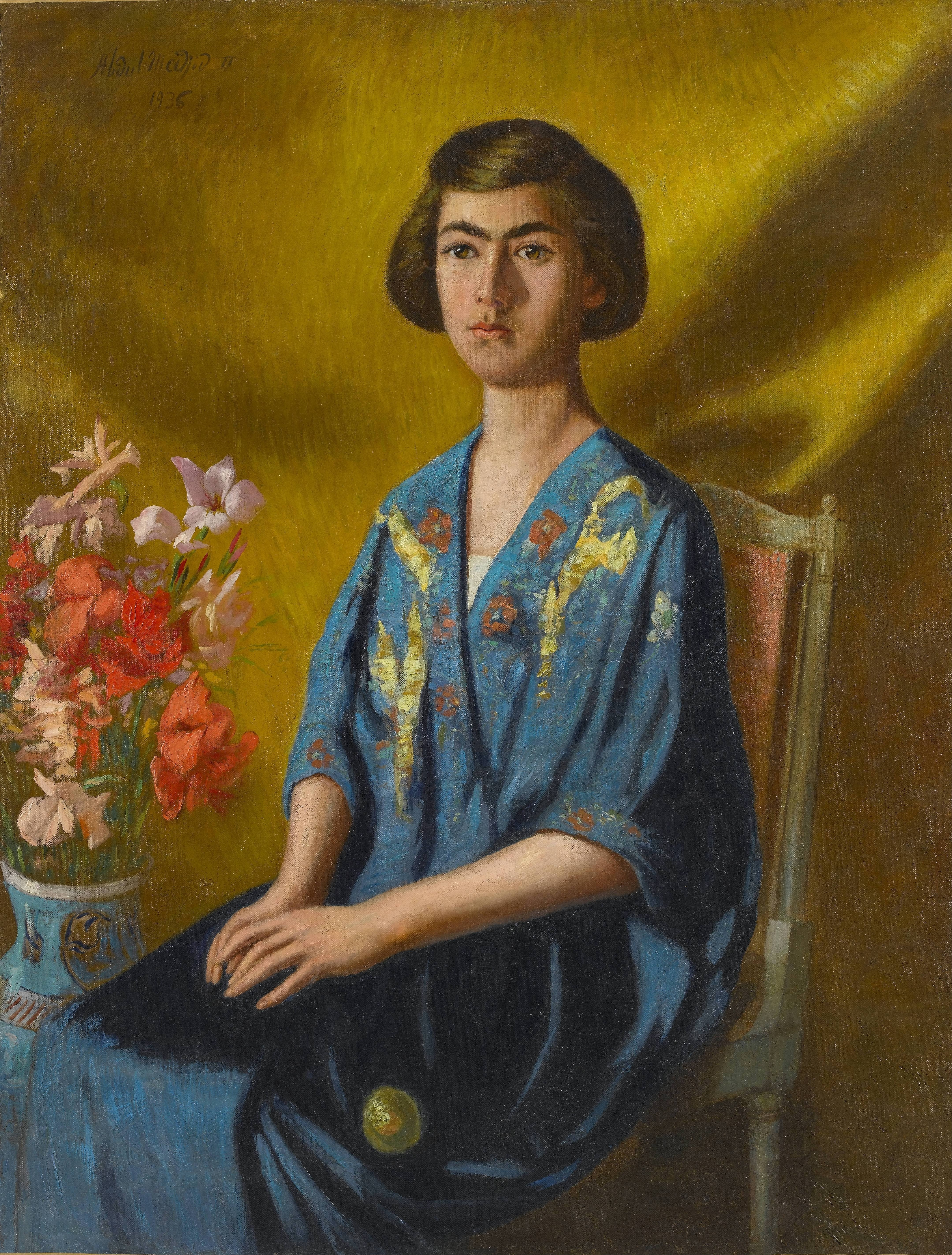 Portrait of princess Hanzade Osmanoğlu, granddaughter of the last Ottoman caliph, Abdülmecid II.